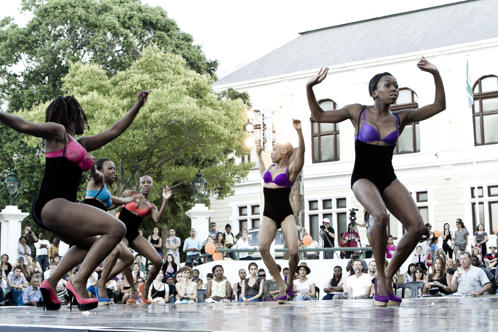 Infecting the City 2012. Africa Centre